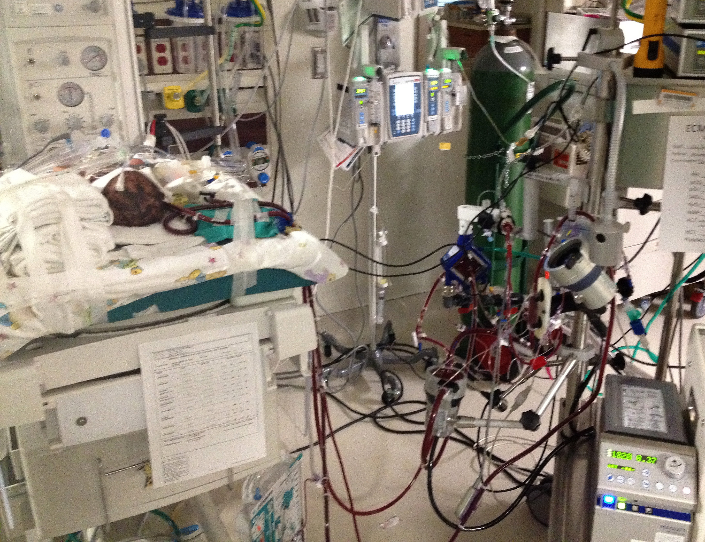 Brianna Sackreiter was the first ECMO patient treated at San Antonio Military Medical Center, Feb. 11. ECMO is a life-saving device that mimics the natural function of the heart and lungs, allowing an infant or child to rest while natural healing of the affected organ takes place.